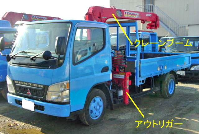 Mitsubishi Fuso Canter Truck crane with Japanese caption